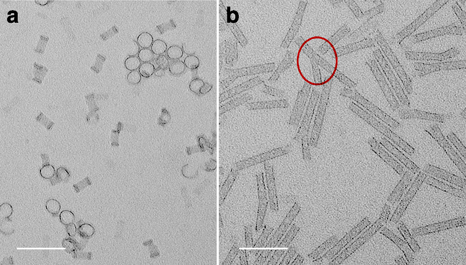 Nickel phosphate nanorings and nanotubes, TEM image